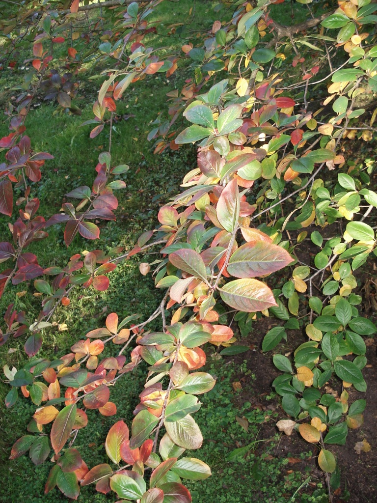 Black chokeberry, Aronia melanocarpa (Photinia melanocarpa). Found in Riga town, Latvia